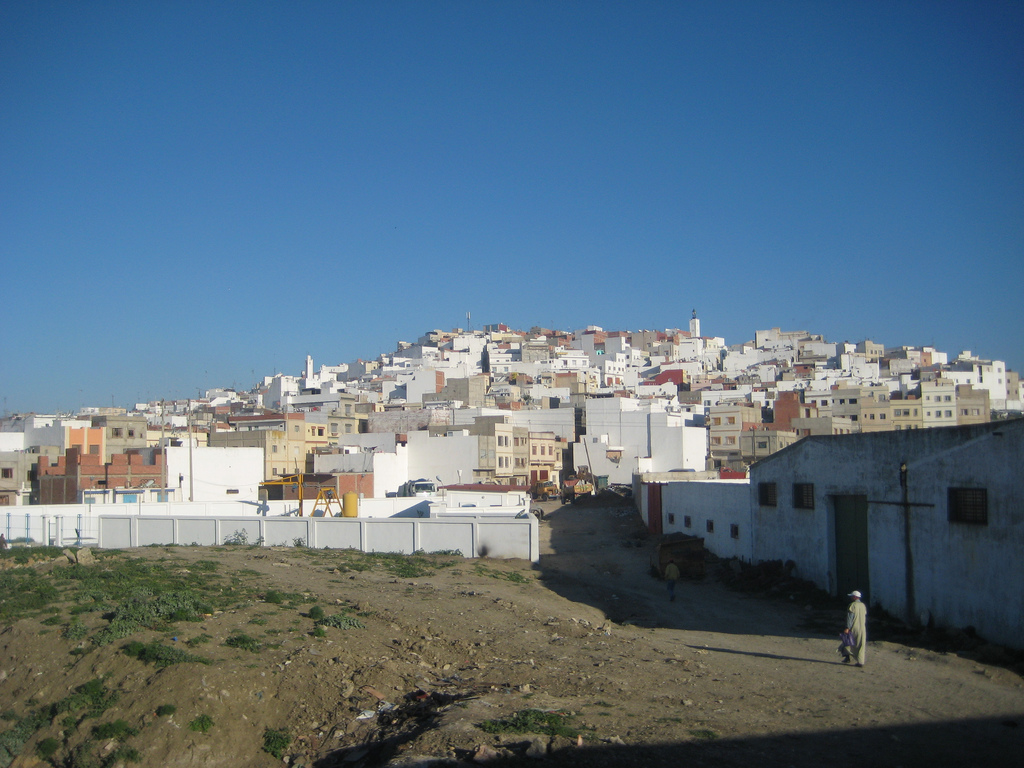 Tangier, Morocco